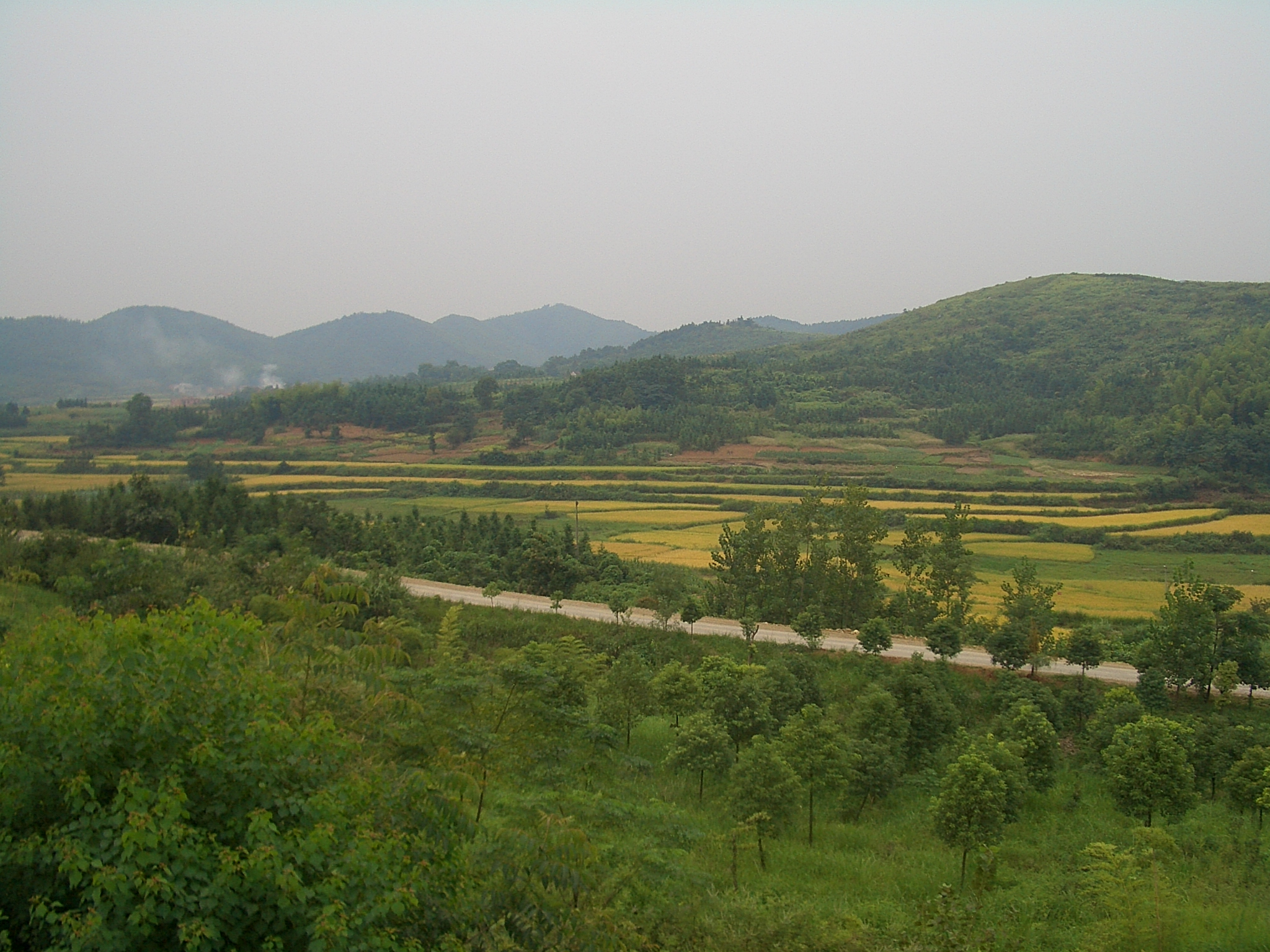 The scenery of Xianning prefecture-level city, some 15 km east of city center, near Project 131 site